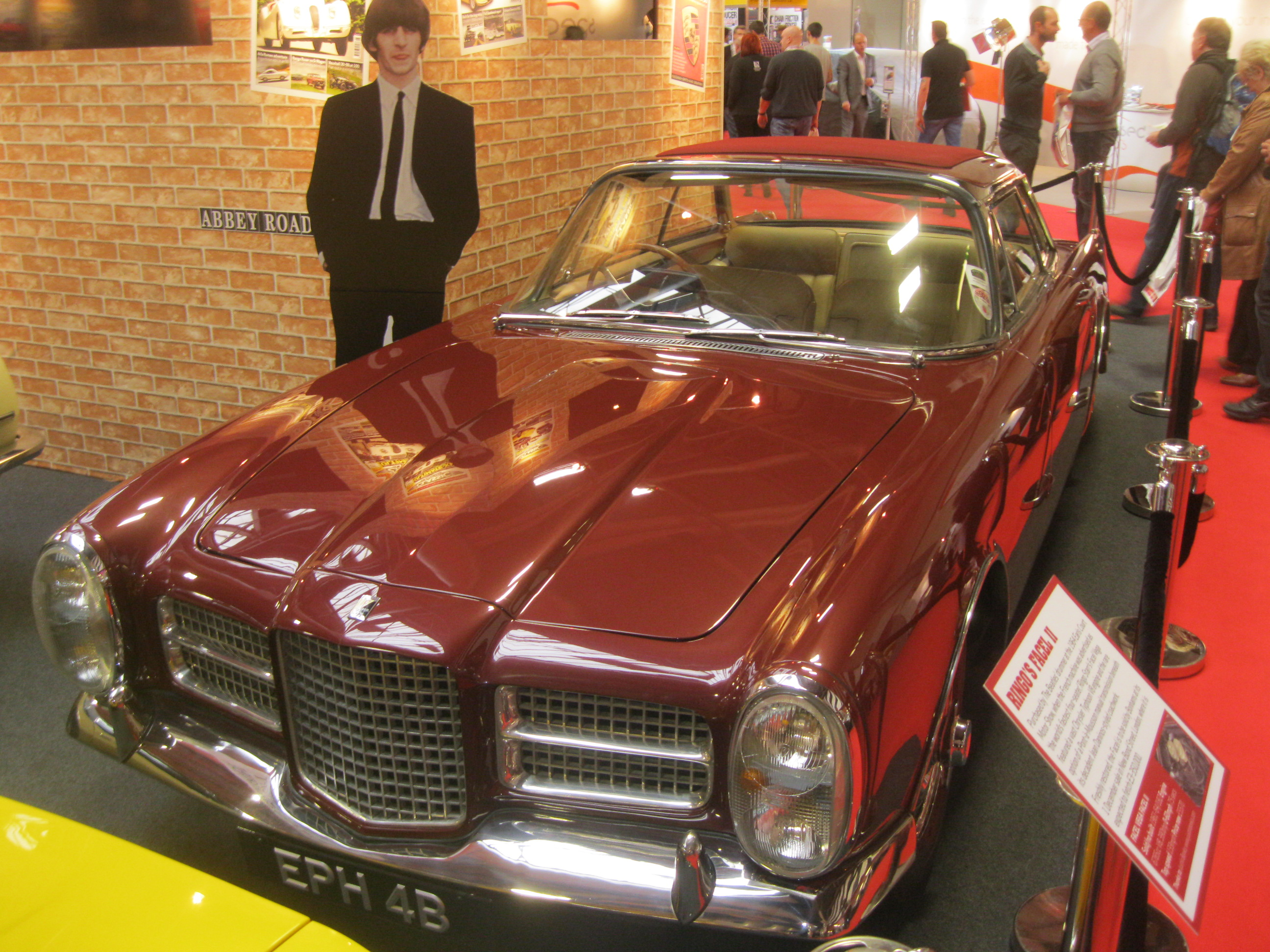 Exhibited at the NEC Birmingham Classic Car Show, 15-17 November 2013